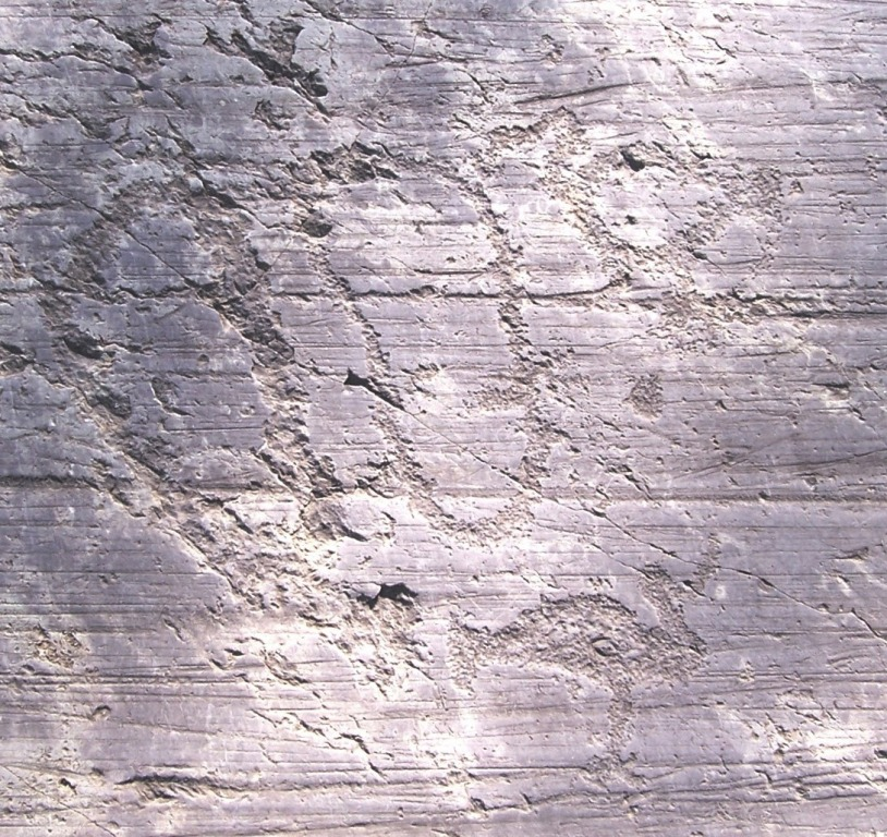 Footprints and bird. Parco nazionale delle incisioni rupestri di Naquane, Capo di Ponte, Italy